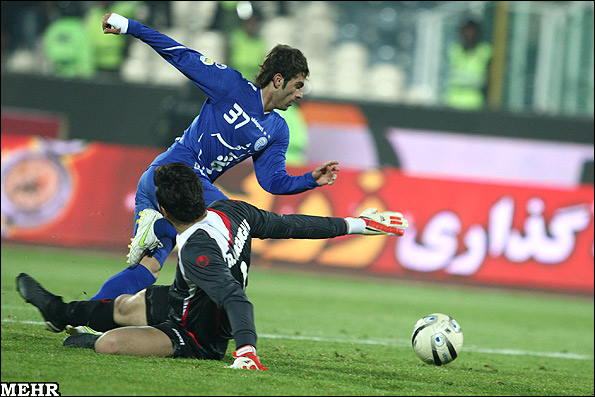 Esteghlal 3 - 0 Persepolis